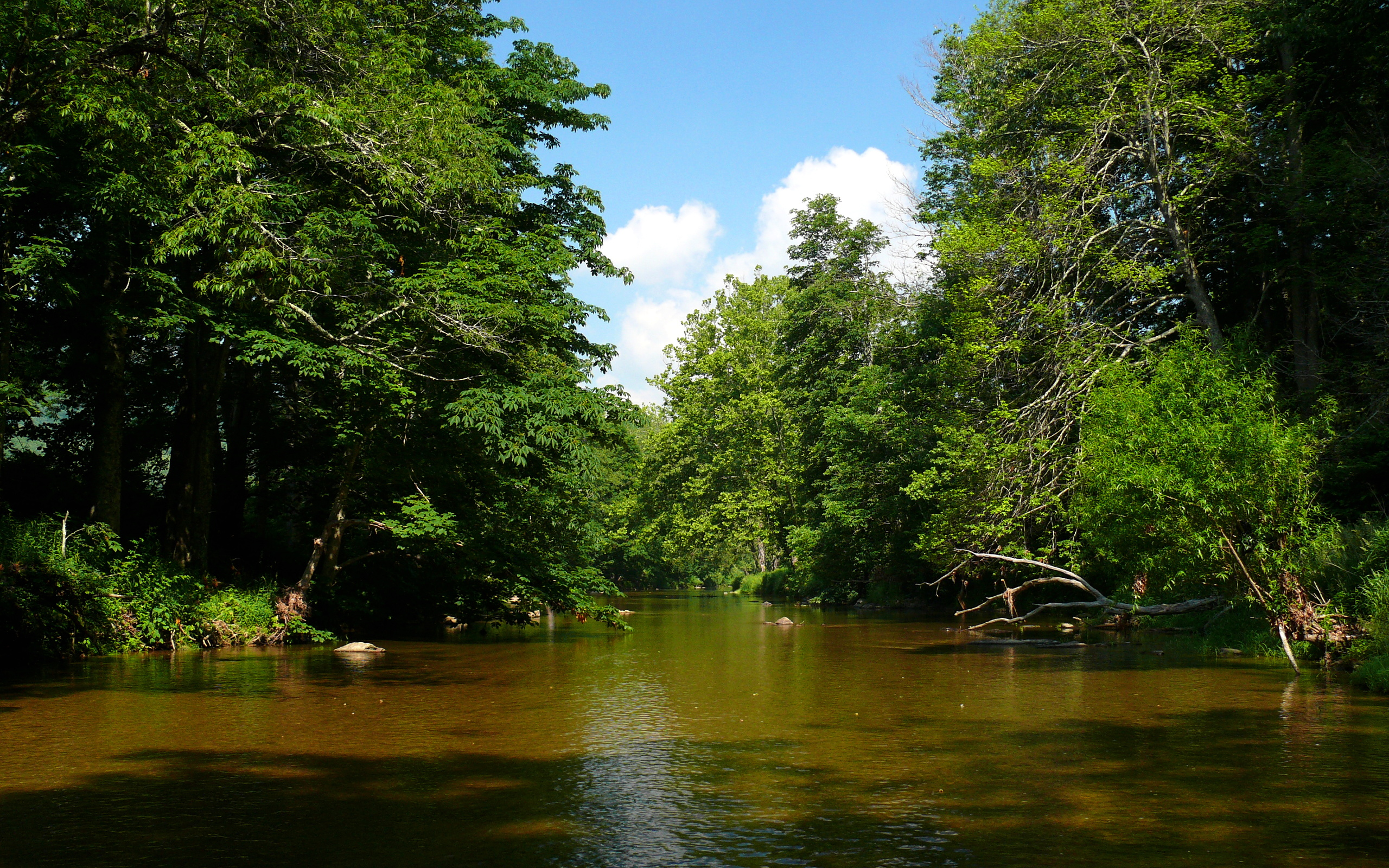 The Watauga River.Photo taken with a Panasonic Lumix DMC-FZ50 near the village of Valle Crucis in Watauga County, NC, USA.